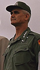 William Westmoreland